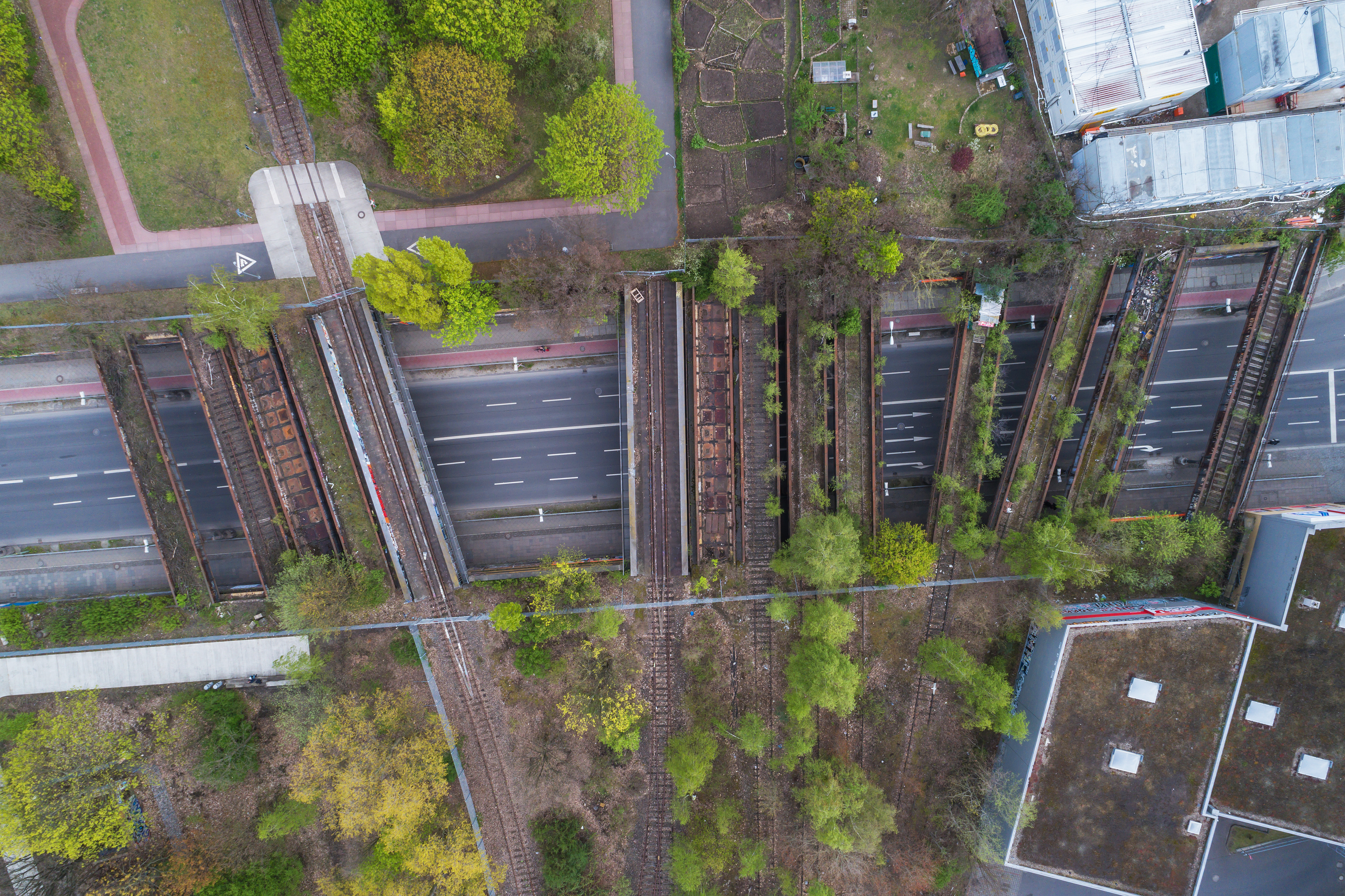 Aerial view of parts of Yorck Bridges in Berlin (Germany)